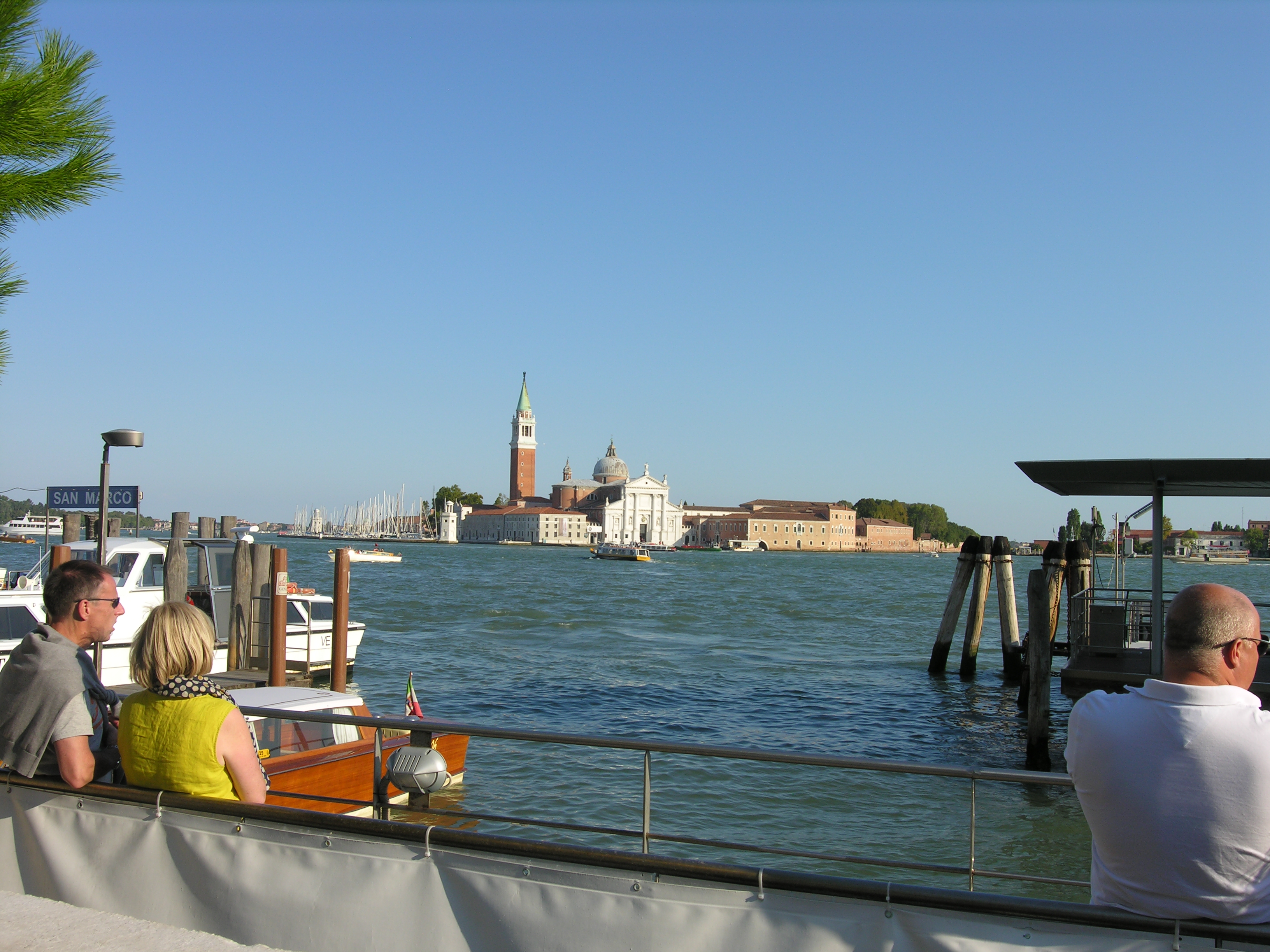 San Marco, 30100 Venice, Italy